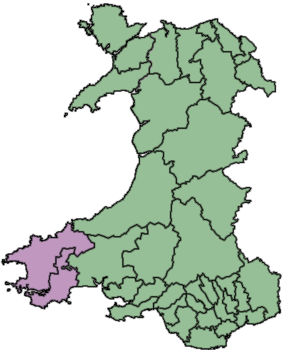 Preseli & South Pembrokeshire Area of Search